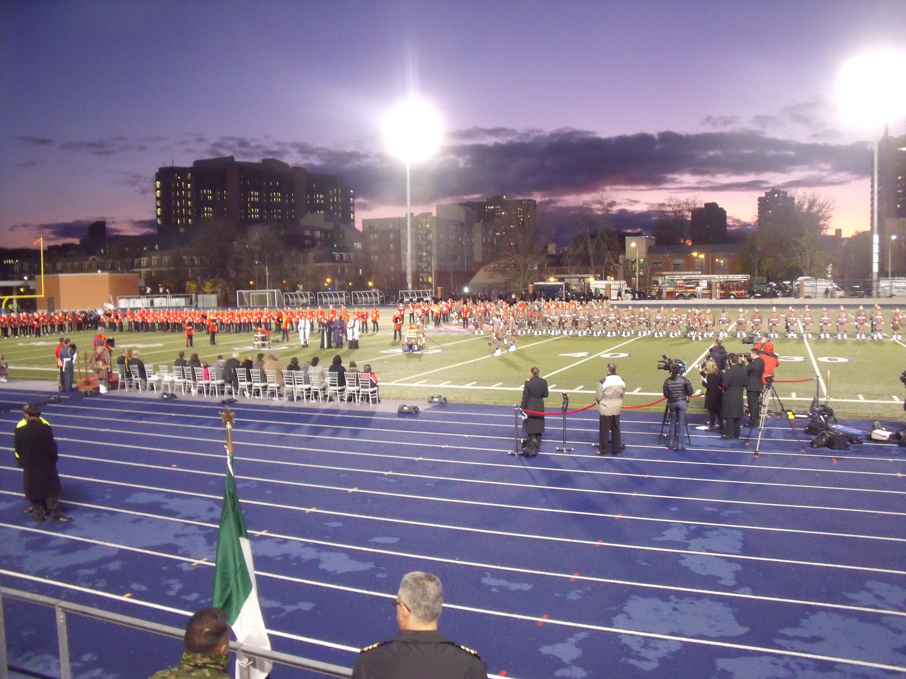 Consecration of the new colours